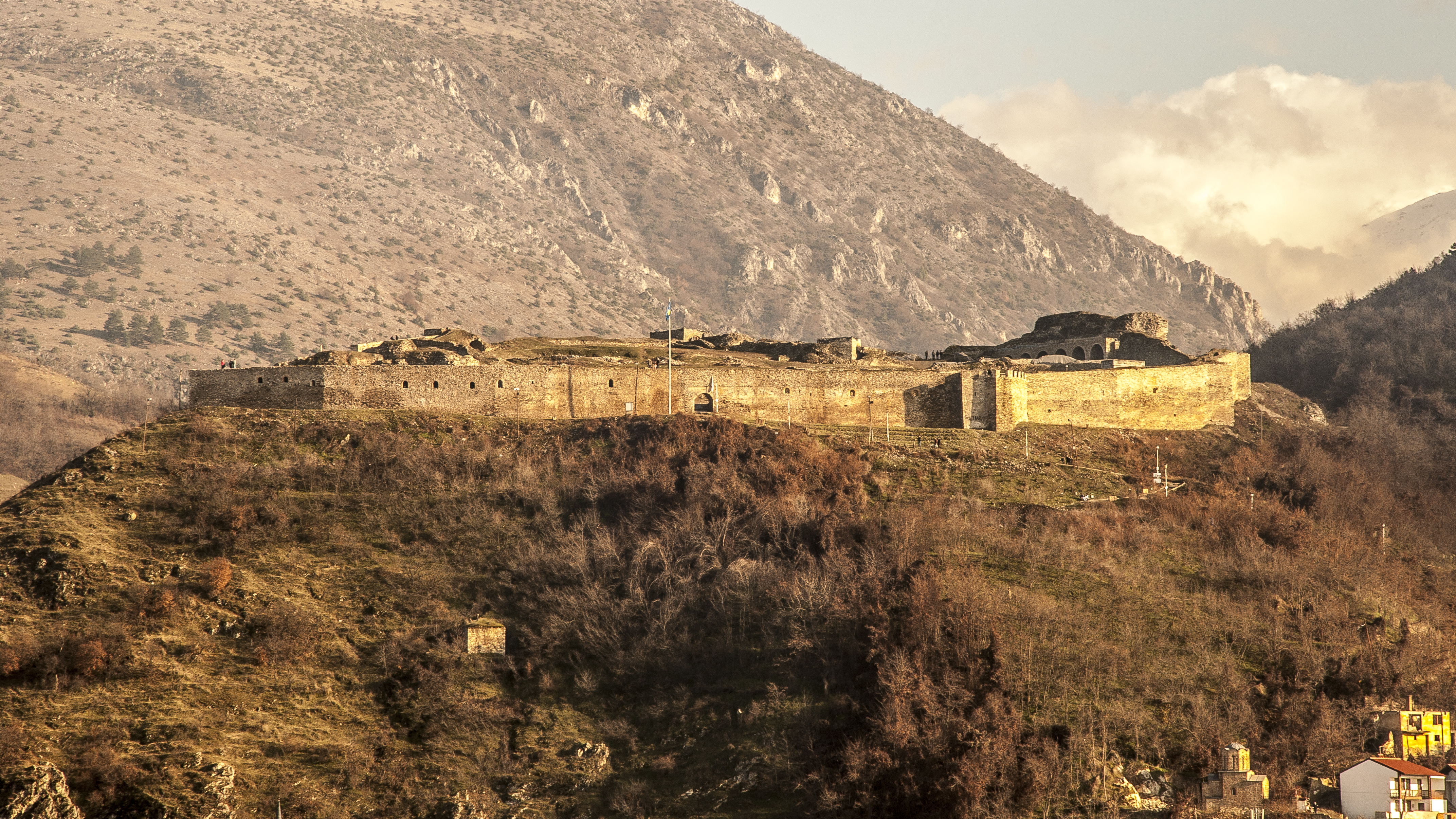 Prizren Fortress, also known as Kaljaja and Dušan's Fortress, which once served as the Othoman's Empire